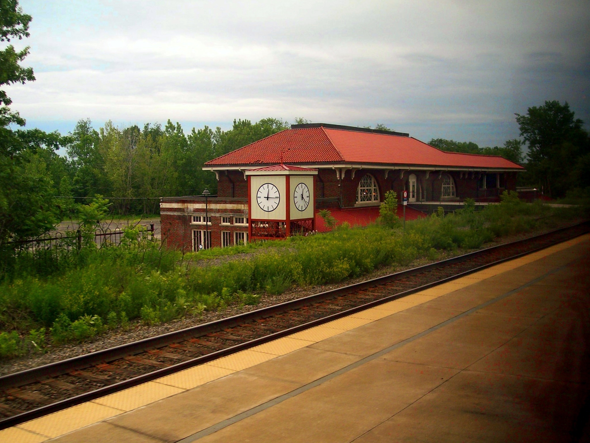 Station Building and Platform at Rome NY